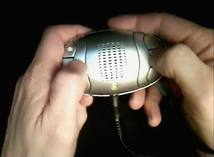 Artificial Intelligence and musical composition (Paris-France-2012)